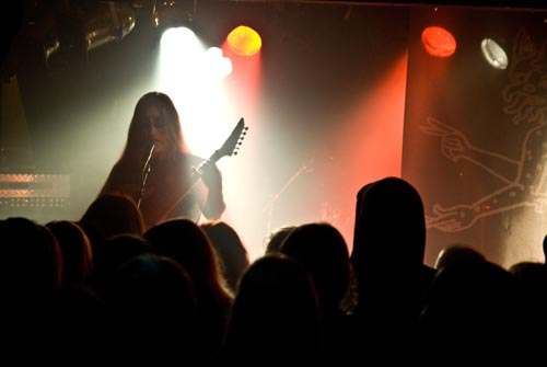 Inquisition, live at Hole In The Sky, Bergen Metal Fest 2008